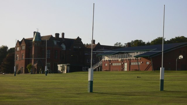 Ditcham Park School seen from footpath